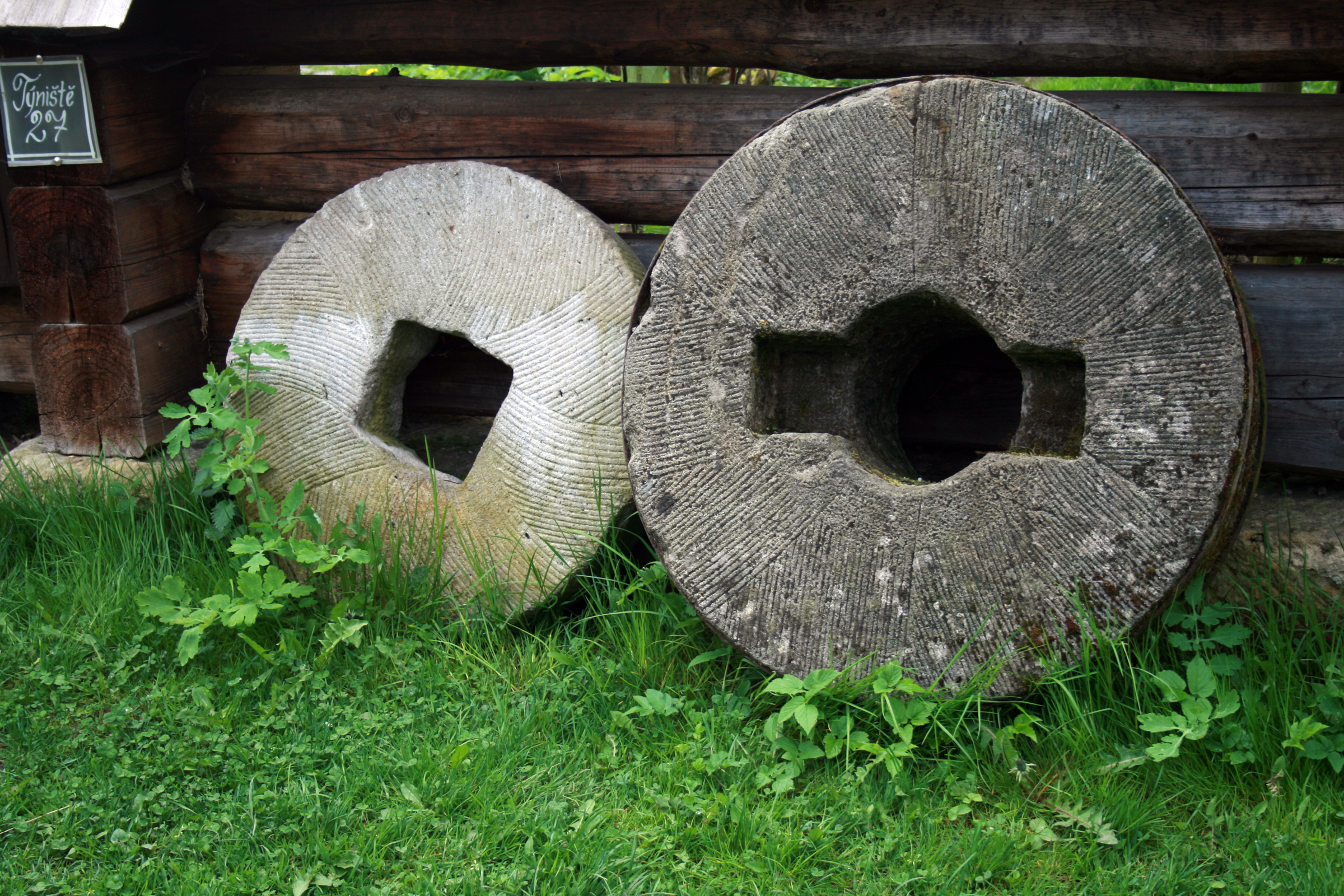 Old millstones in open-air museum in Zubrnice in nothern Bohemia